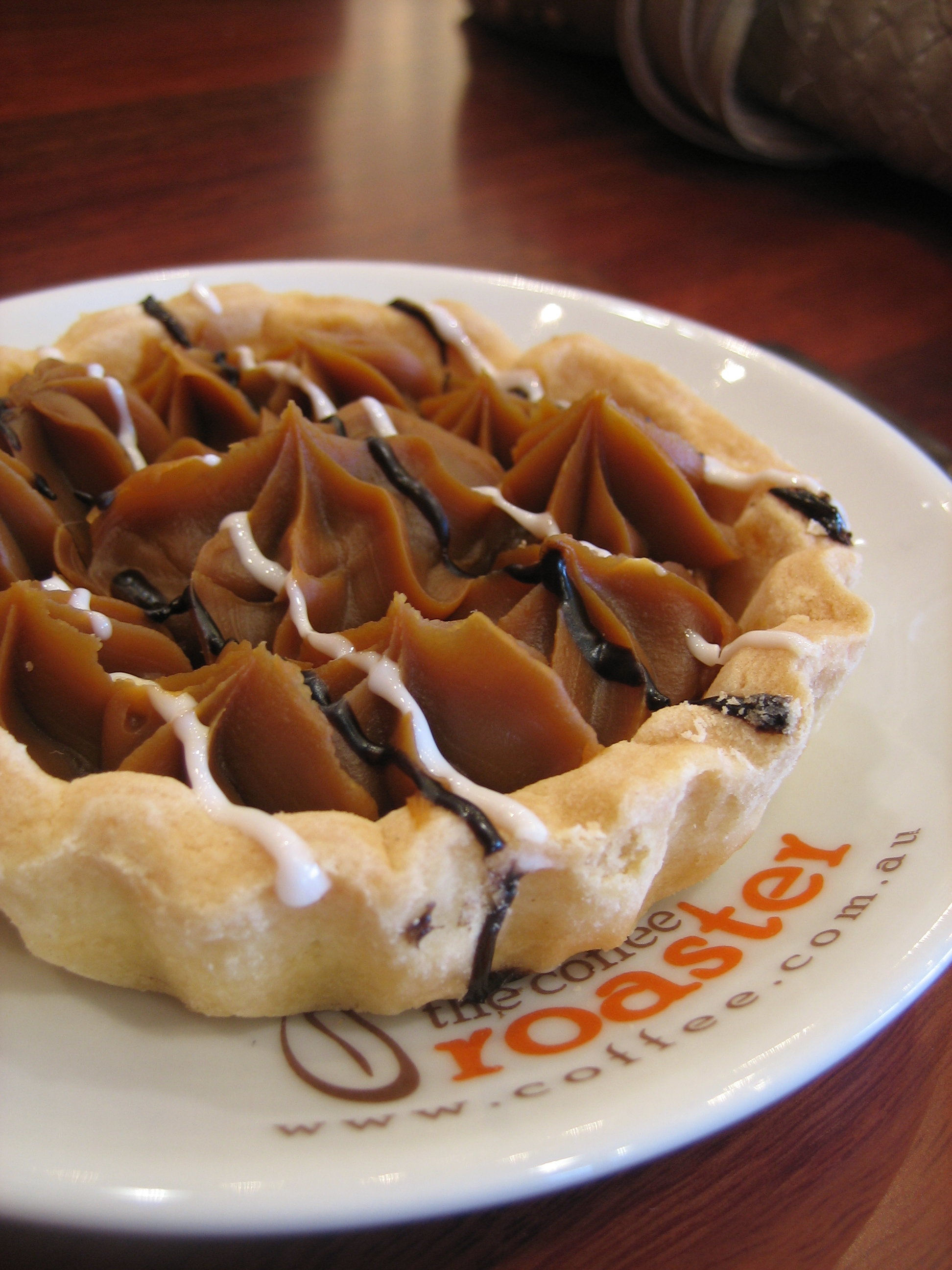 Caramel tart - pure sugar sweet.